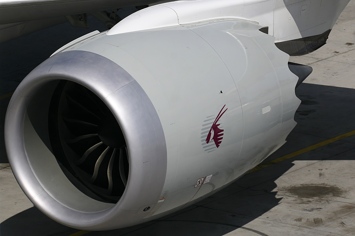 Munich (EDDM/MUC) Airport